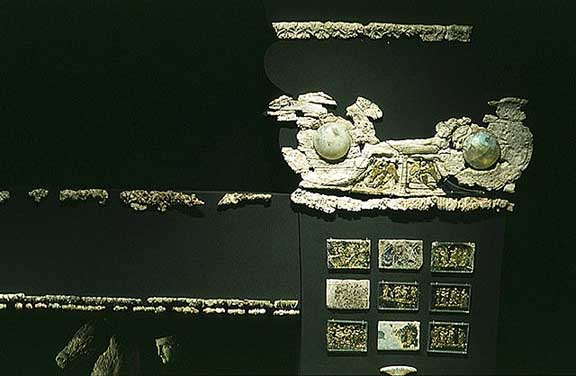 The Coach of Philip II Ornamented with Ivory, image from the Royal Tombs, Vergina, Central Macedonia, Greece